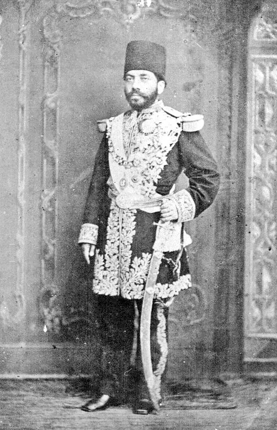 Mirza Hosein Khan Moshir od-Dowleh